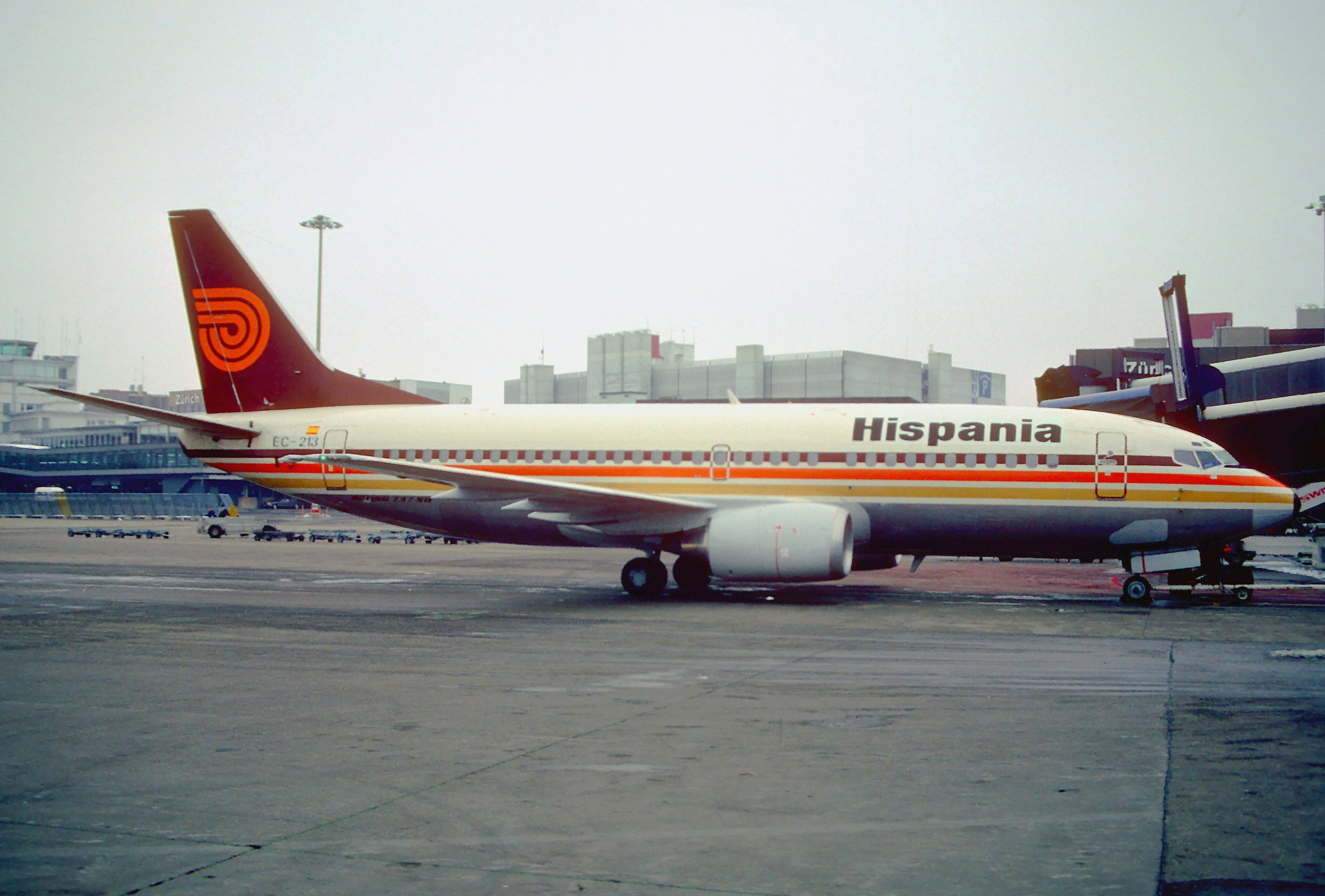 This Boeing 737-3T5 (first flight: March 14, 1988) is carrying Hispania-titles on Orion Airways-colours and the temporary Spanish registration consisting of numbers... 28/03/1988 Orion Airways G-BNRT 09/11/1988 Hispania Airlines EC-213 01/01/1989 Hispania Airlines EC-ELV 30/03/1989 Britannia Airways G-BNRT 26/10/1989 Australian Airlines G-BNRT 29/04/1990 Britannia Airways G-BNRT 13/03/1993 Morris Air N748MA 22/11/1994 Southwest Airlines N696SW stored 09/2008